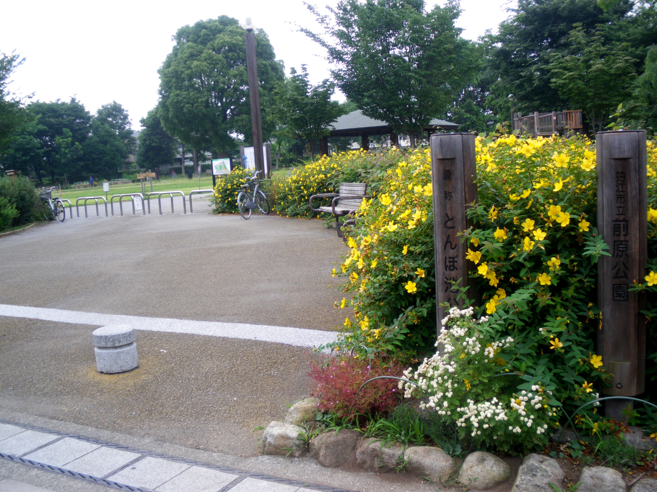 Maehara park(Nishinogawa,Komae,Tokyo)